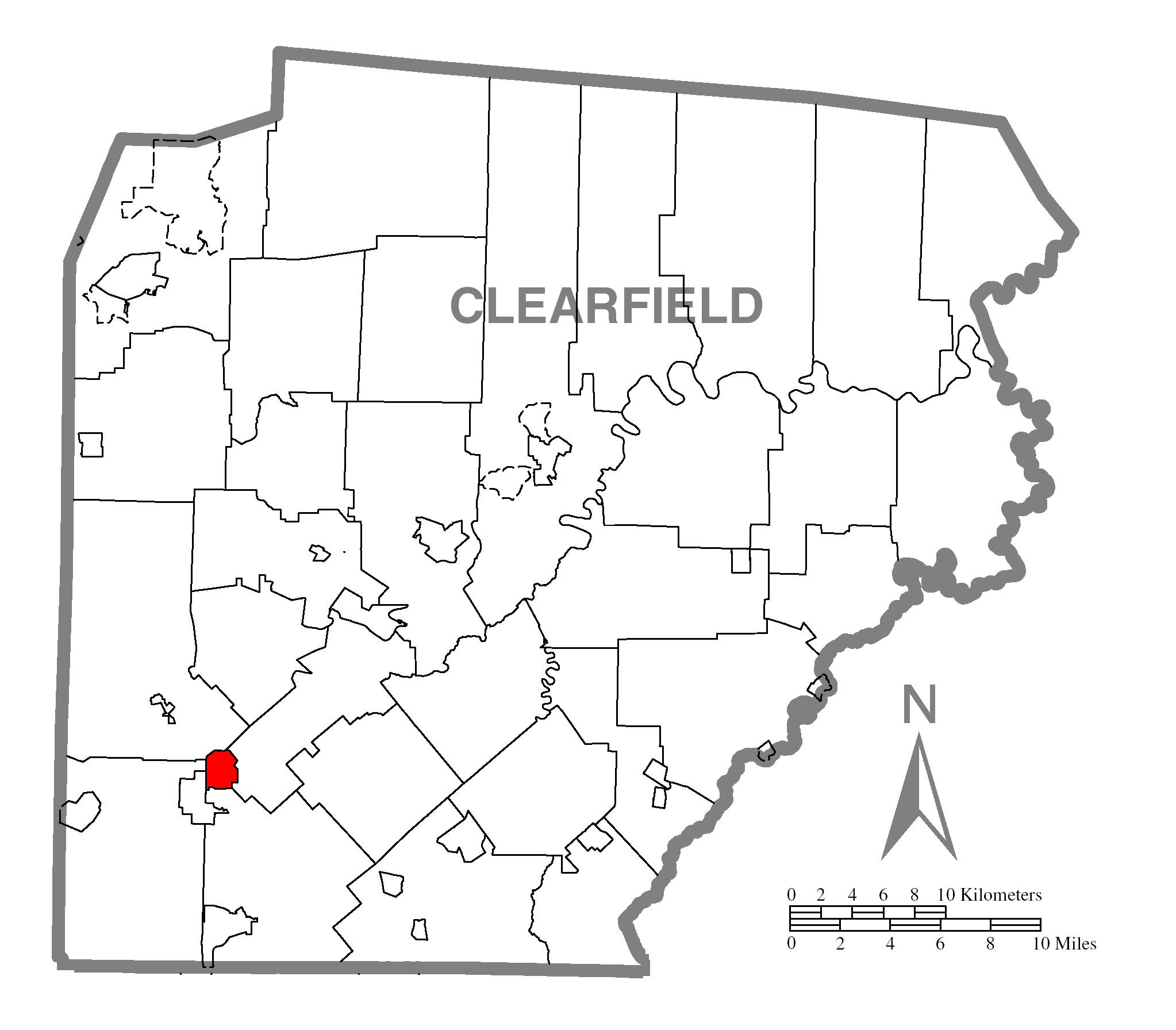 A map of Clearfield County showing Newburg, Pennsylvania (alternate) highlighted on the map.